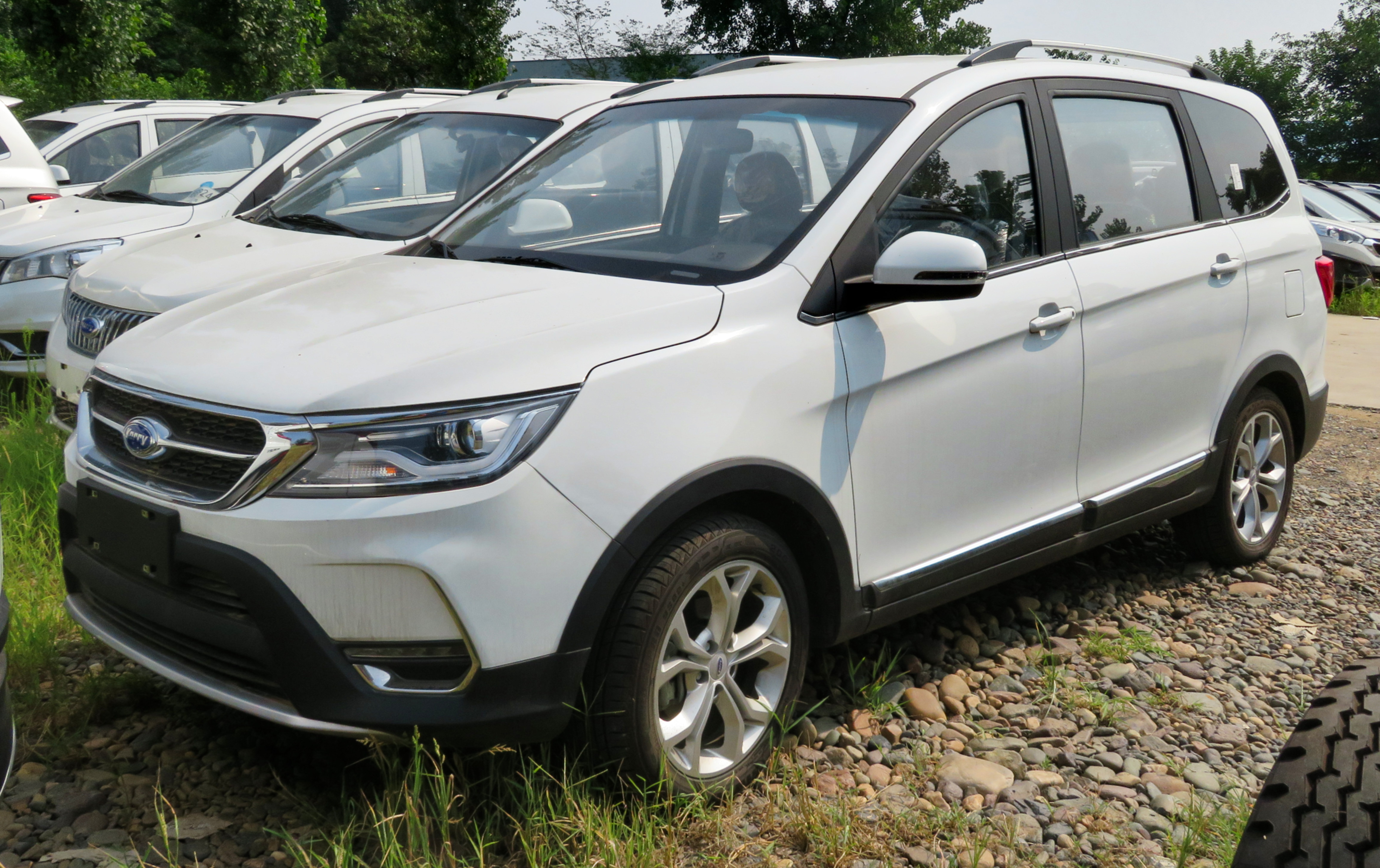 A 2018 Chery Karry K60 photographed at Guanlinzhen, in Luoyang, Henan province, China